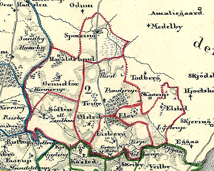 Vester Lisbjerg Herred, Århus Amt 1826, Denmark.